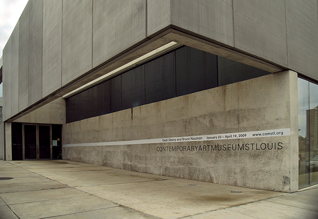 Entryway of the Contemporary Art Museum St. Louis (photo by Nathaniel Paluga)